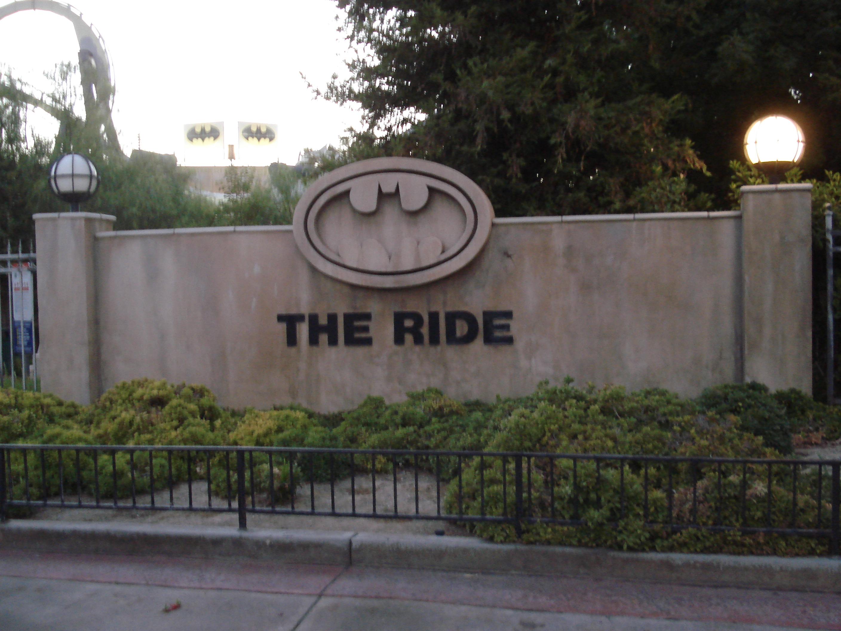 Batman: The Ride at Six Flags Magic Mountain